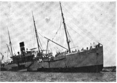 The U.S. Army transport McPherson, after she ran aground near Mantanzas, Cuba. View is looking from seaward.